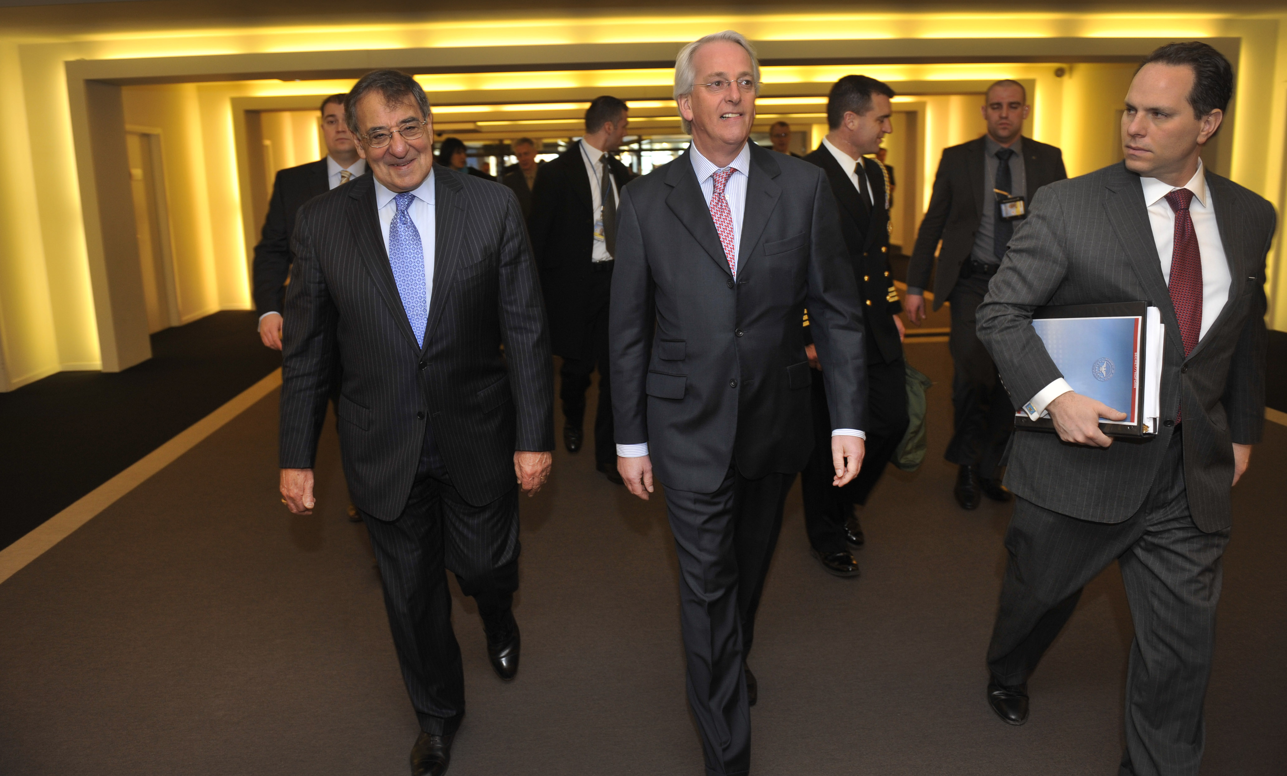 Secretary of Defense Leon E. Panetta, left, and Ivo H. Daalda, U.S. Ambassador to NATO, center along with Panetta's Chief of Staff Jeremy Bash, arrives for a second day of meetings with defense counterparts from other NATO member nations at NATO Headquarters in Brussels, Belgium Feb. 22, 2013. (DoD Photo By Glenn Fawcett) (Released)